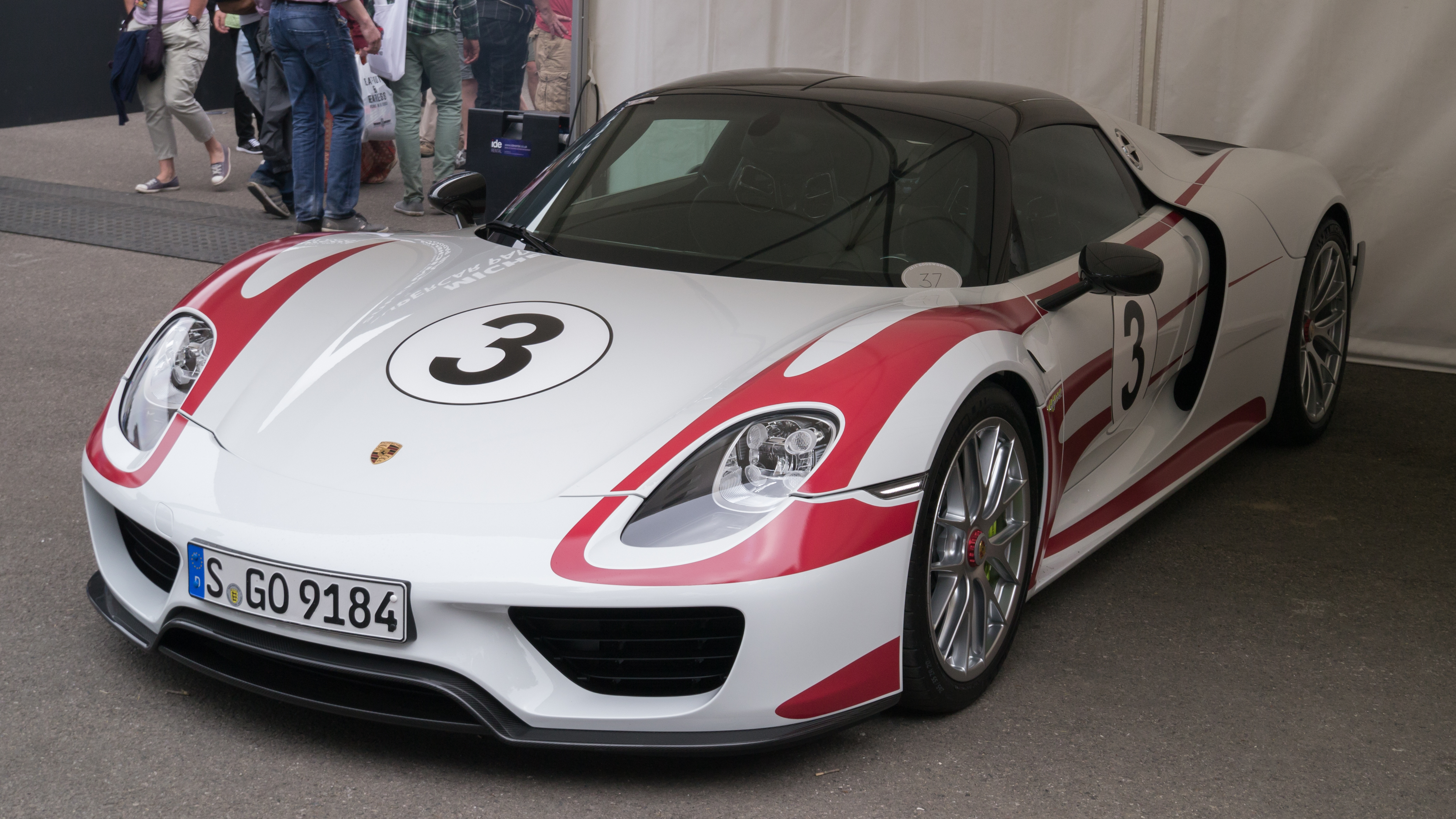 A 2014 Porsche 918 Spyder with Weissach Package, and film wrap in "Saltzburg design".